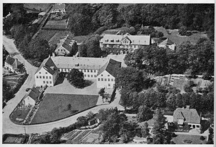 The former Jonstrup Seminarium, now a primary school, in Furesø Municipality, Denmark